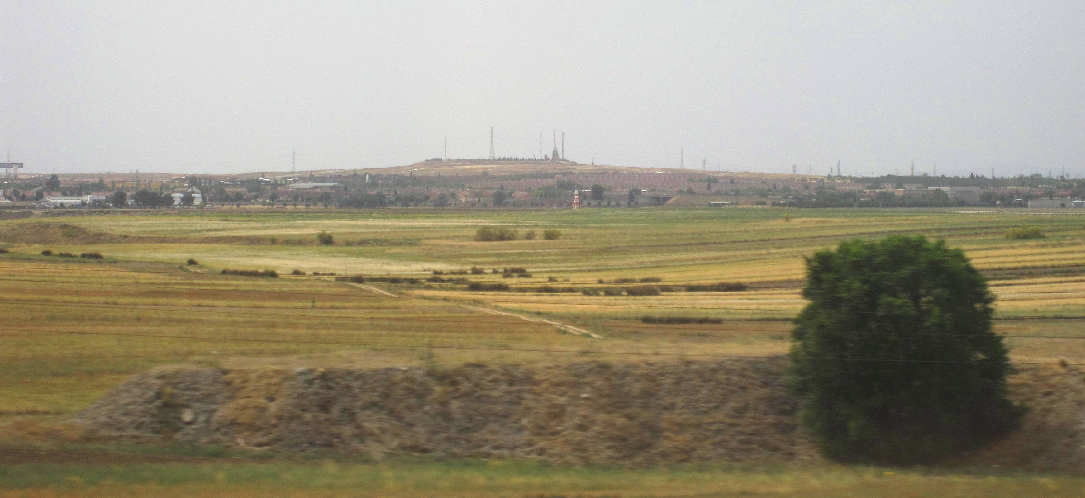 Buenavista Hill seen from AVE train (center of Spain).